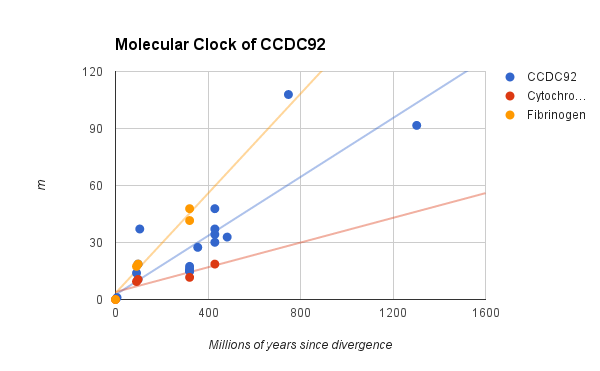 Adjusted amino acid changes per 100 (m) vs millions of years gives a depiction of how quickly the gene changes. Fibrinogen, a quickly changing protein, and Cytochrome C, a slowly changing protein, are given as reference.